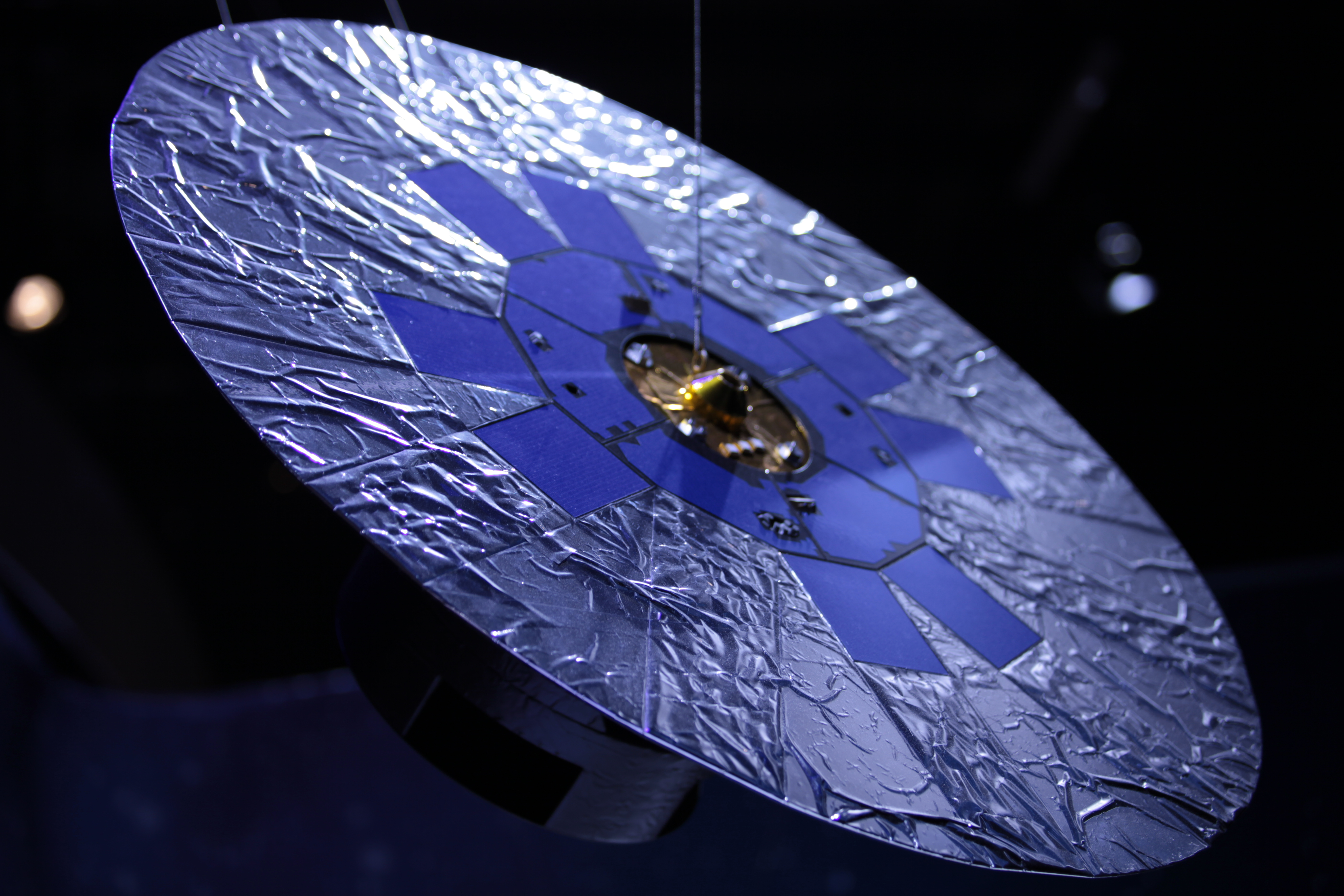 Die Mission soll die größte dreidimensionale Karte unserer Galaxie erstellen / The mission will create the largest, most precise three-dimensional map of our Galaxy to date by surveying an one percent of 100 billion stars.